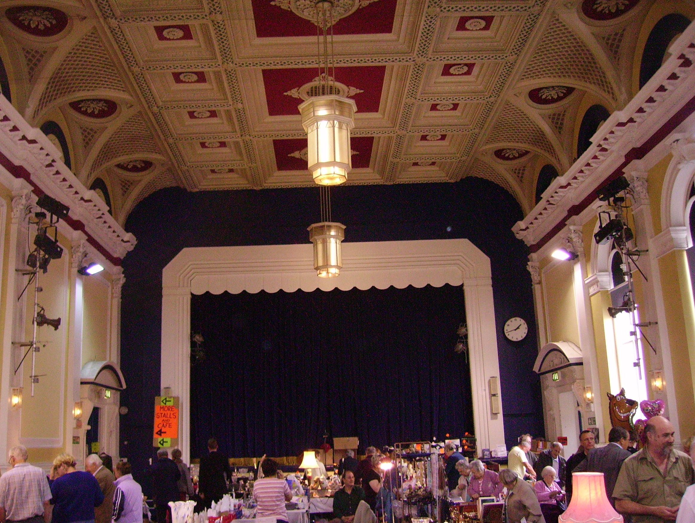 view of Skipton, United Kingdom